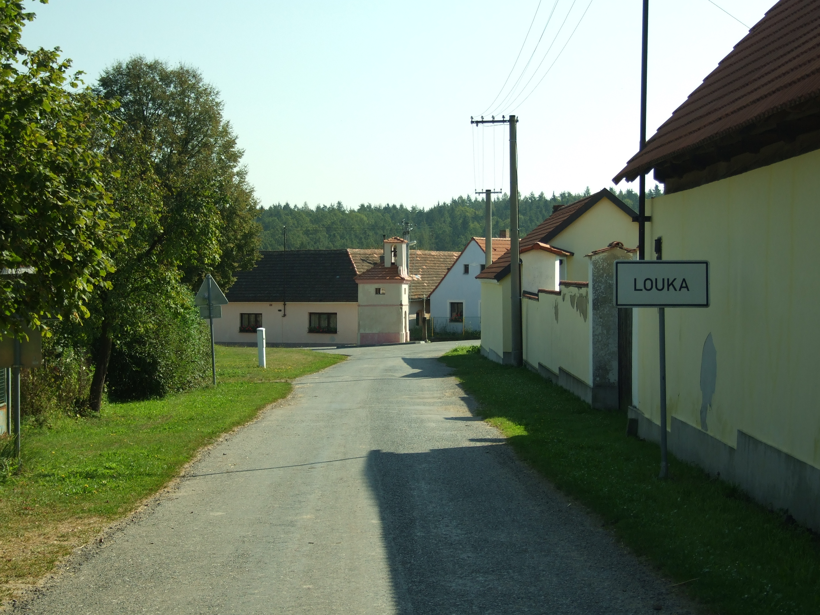 Louka village, South Bohemian Region, CZhelp